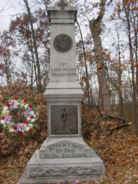 Monument to the 67 Ny Volunteers at Gettysburg